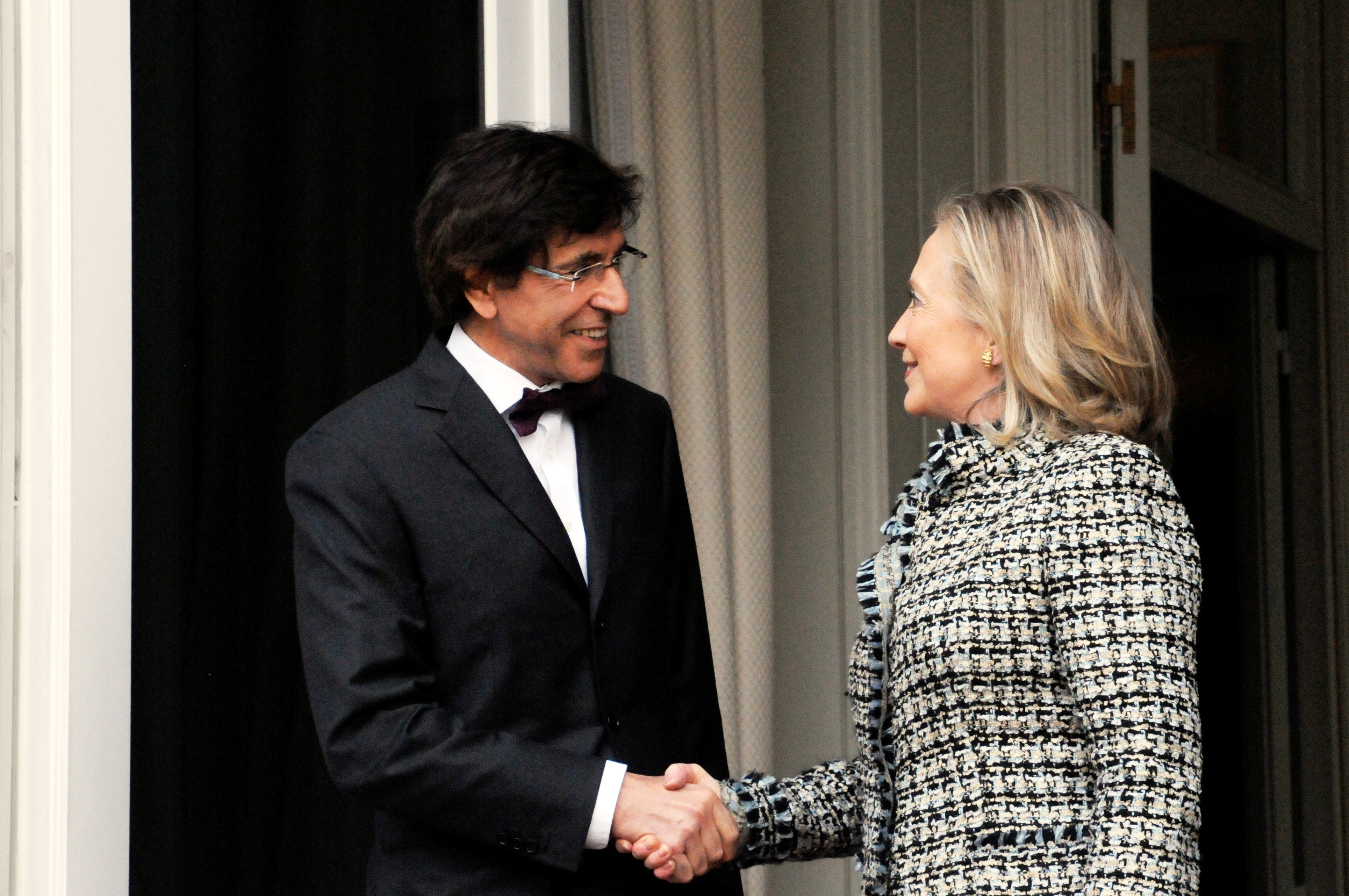 U.S. Secretary of State Hillary Rodham Clinton is greeted by Belgian Prime Minister Elio Di Rupo, center, upon her arrival at the Prime Minister's residence in Brussels, Belgium, on April 18, 2012. [State Department photo/ Public Domain]